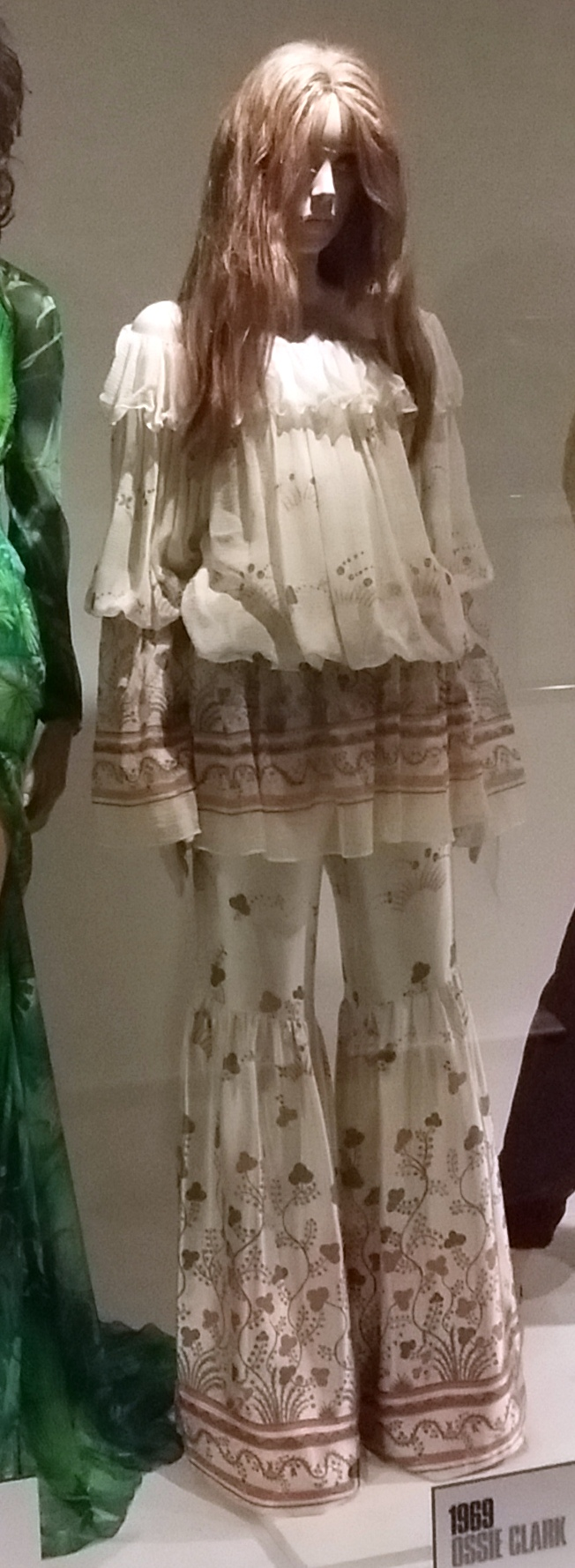 White satin flounced trousers and chiffon tunic in Celia Birtwell's "Botticelli" print. Dress of the Year 1969.